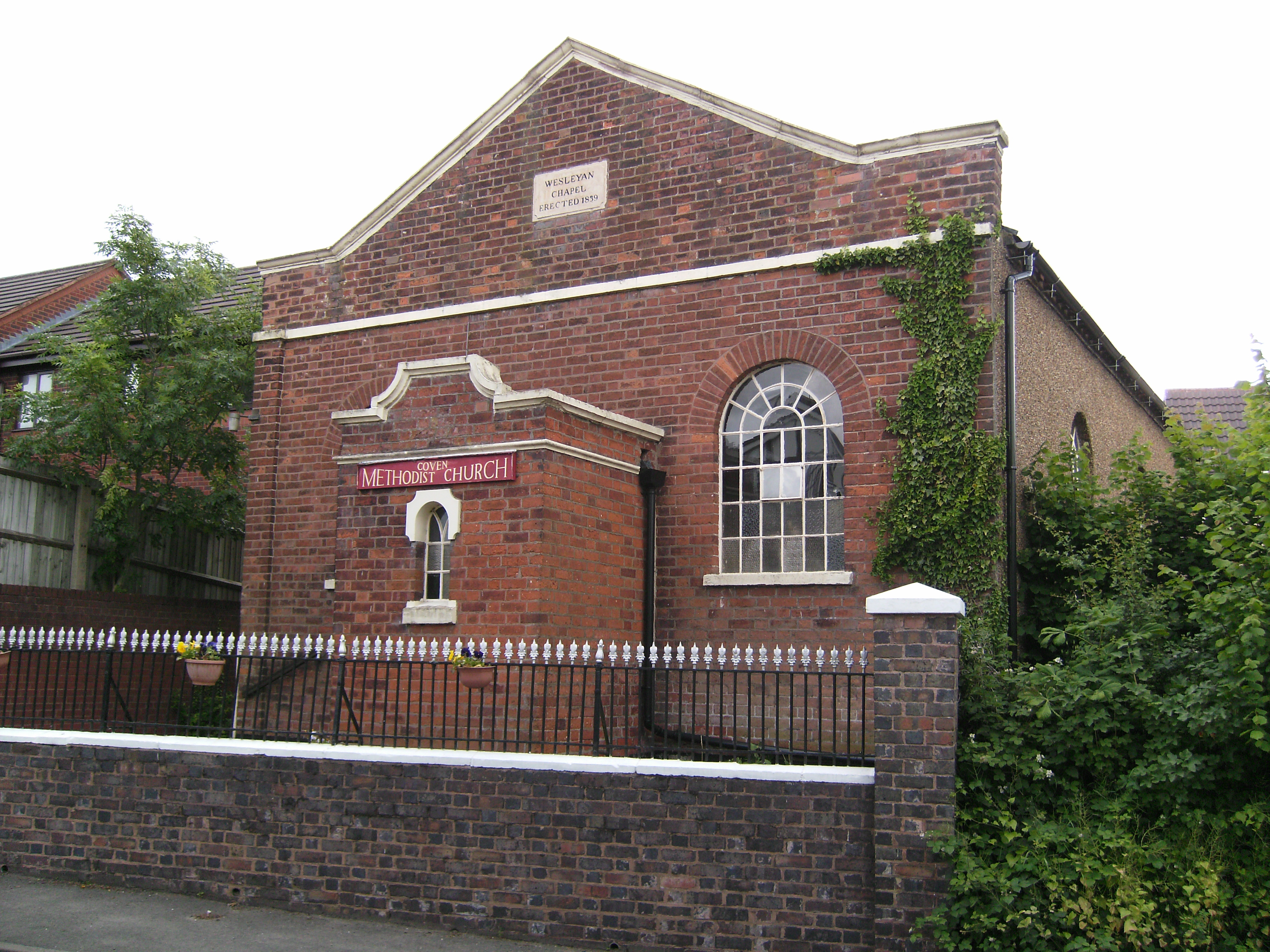 Coven Methodist Church, founded as a Wesleyan Chapel in 1839.